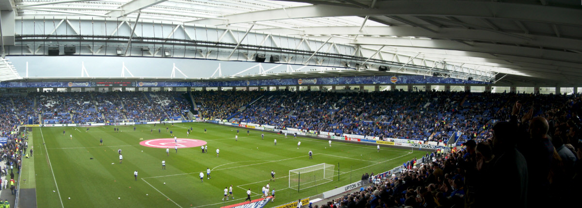 Walkers Stadium from the inside